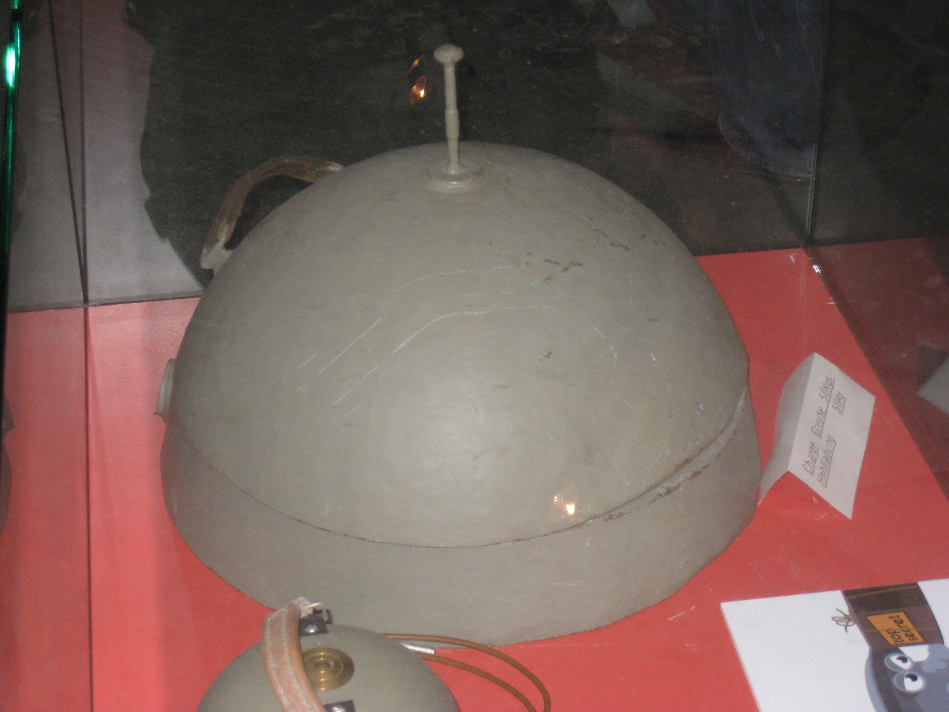 Fort Eben-Emael, Belgium